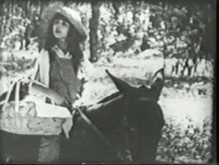 Peggy Cartwright riding Dinah the Mule in One Terrible Day. Vidcap from public domain film "One Terrible Day". Film is public domain because it was produced before 1923.